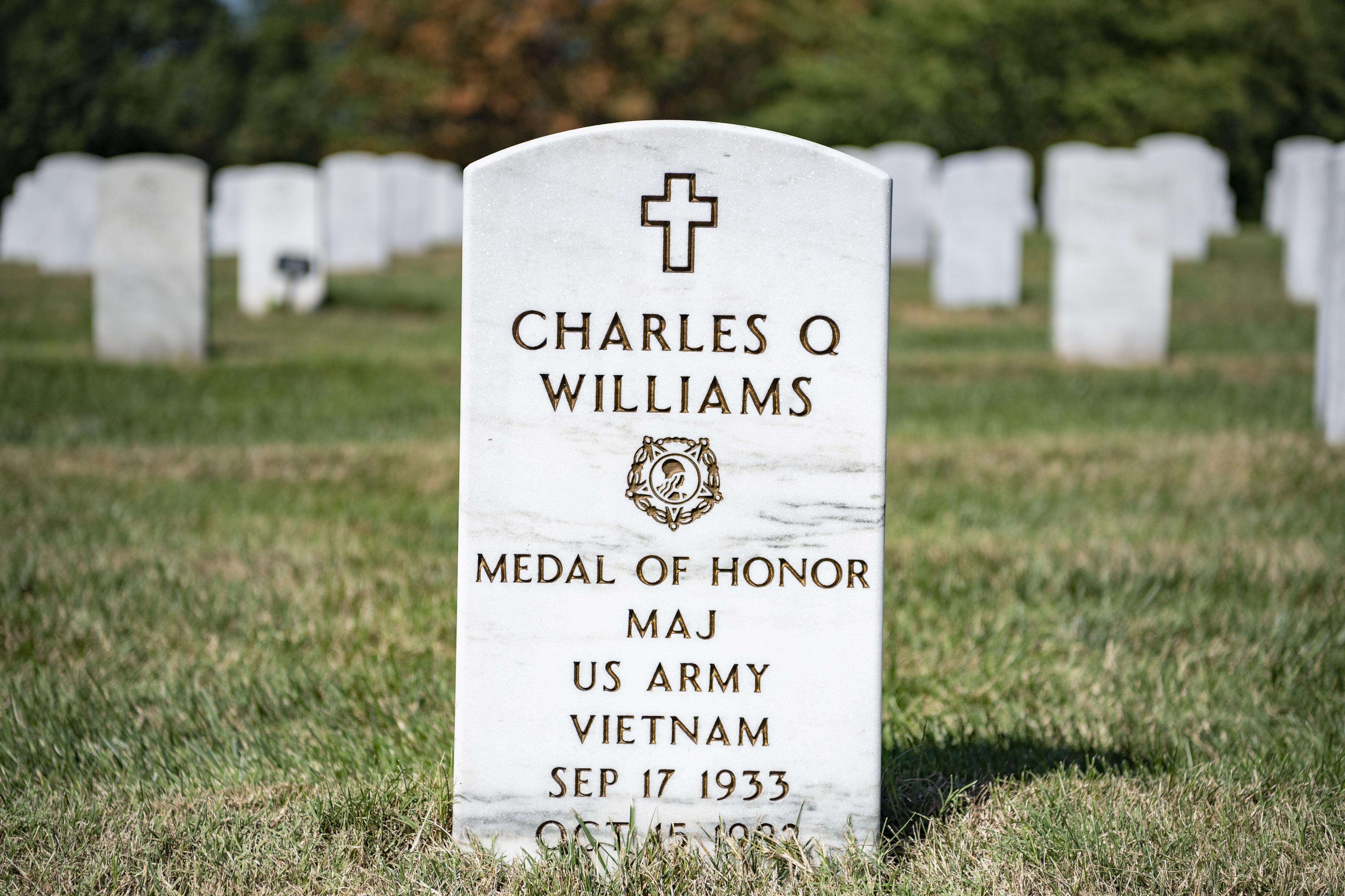 Headstone of U.S. Army Mak. Charles Q. Williams, Medal of Honor Recipient, in Section 65 of Arlington National Cemetery, Arlington, Virginia, Aug. 30, 2019. (U.S. Army photo by Elizabeth Fraser / Arlington National Cemetery / released)